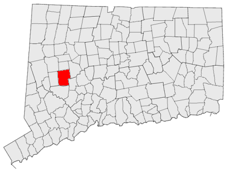 I made this.